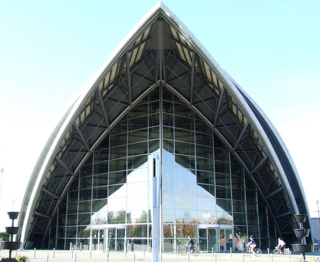 Armadillo or shark? This view of the east side of the Armadillo building resembles a publicity poster for "Jaws"